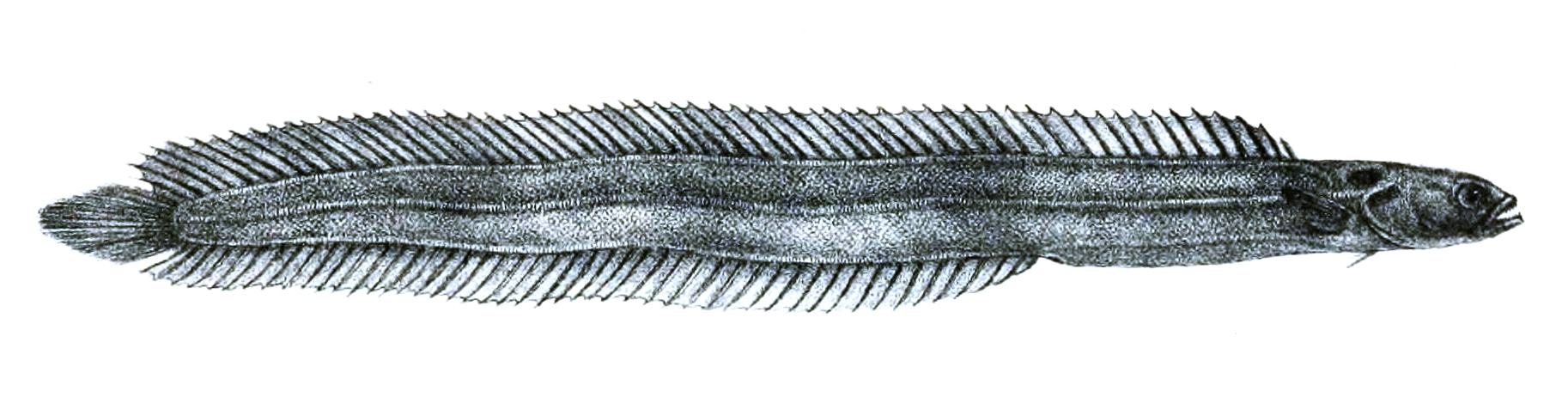 Snakelet